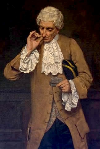 Painting of a man taking snuff using the thumb & forefinger method